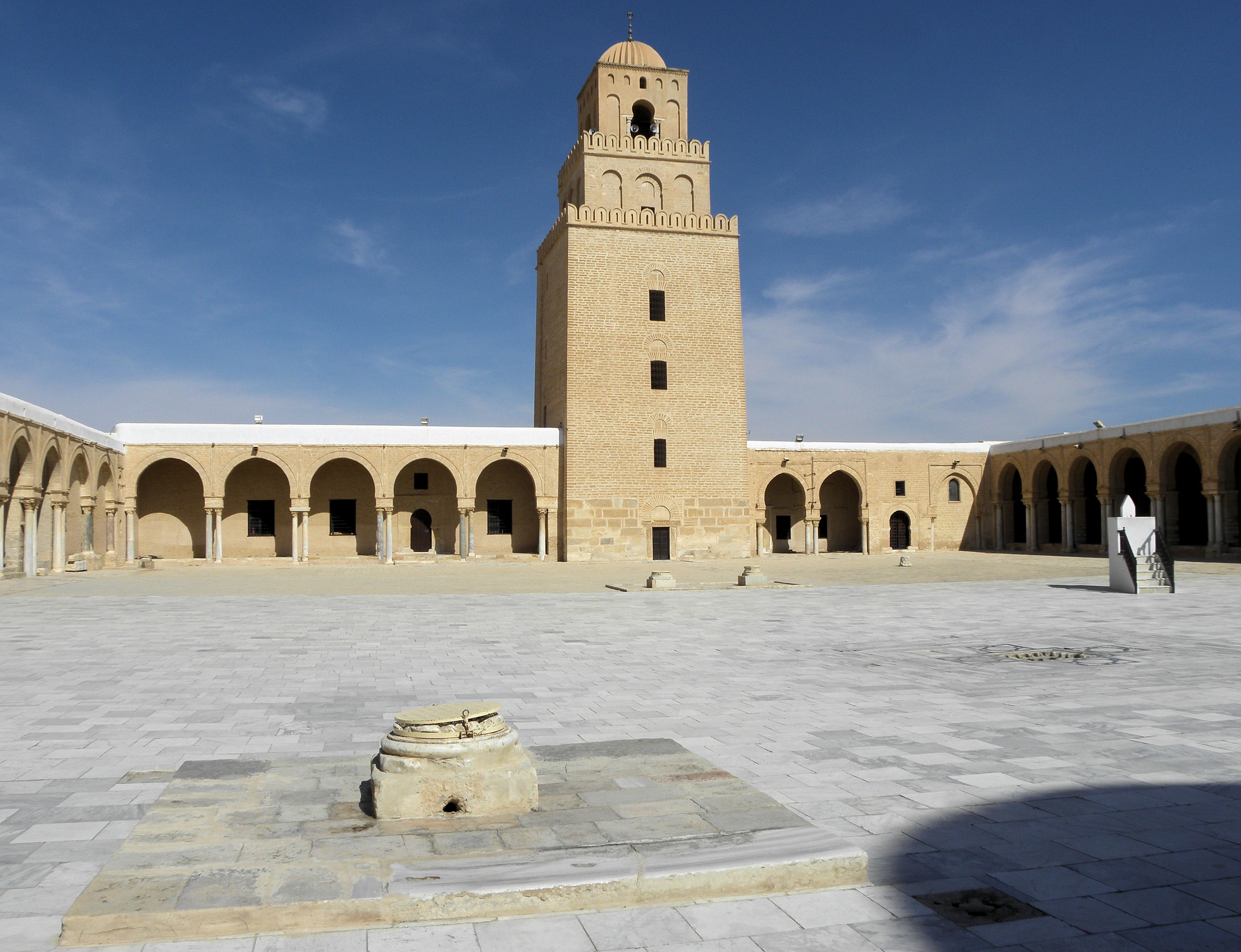 Marble floored courtyard of the Great Mosque (Jemaa Sidi Uqba), Kairouan, Tunisia.